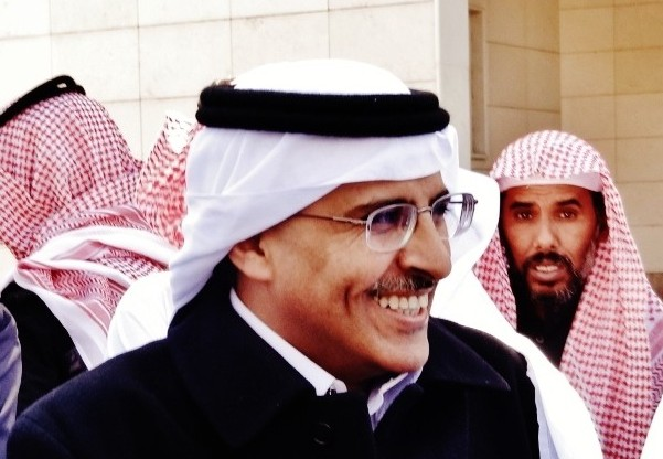 Mohammad al-Qahtani after the seventh trial session.